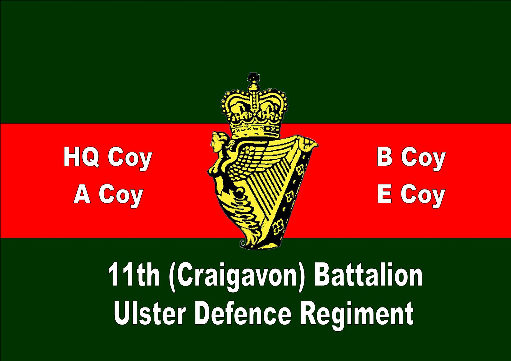 Ulster Defence Regiment Signage